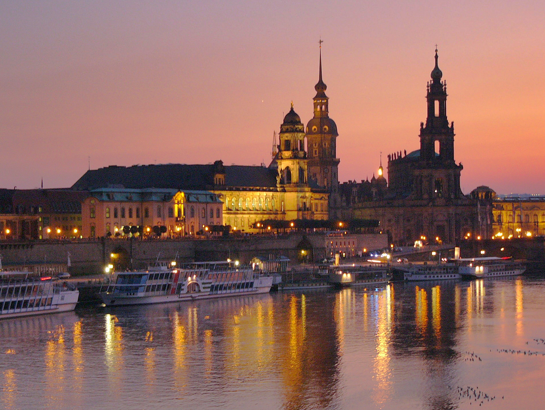 Dresden at night.